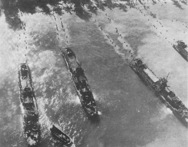 Landing Craft Infantry landing soldiers at Red Beach Morotai